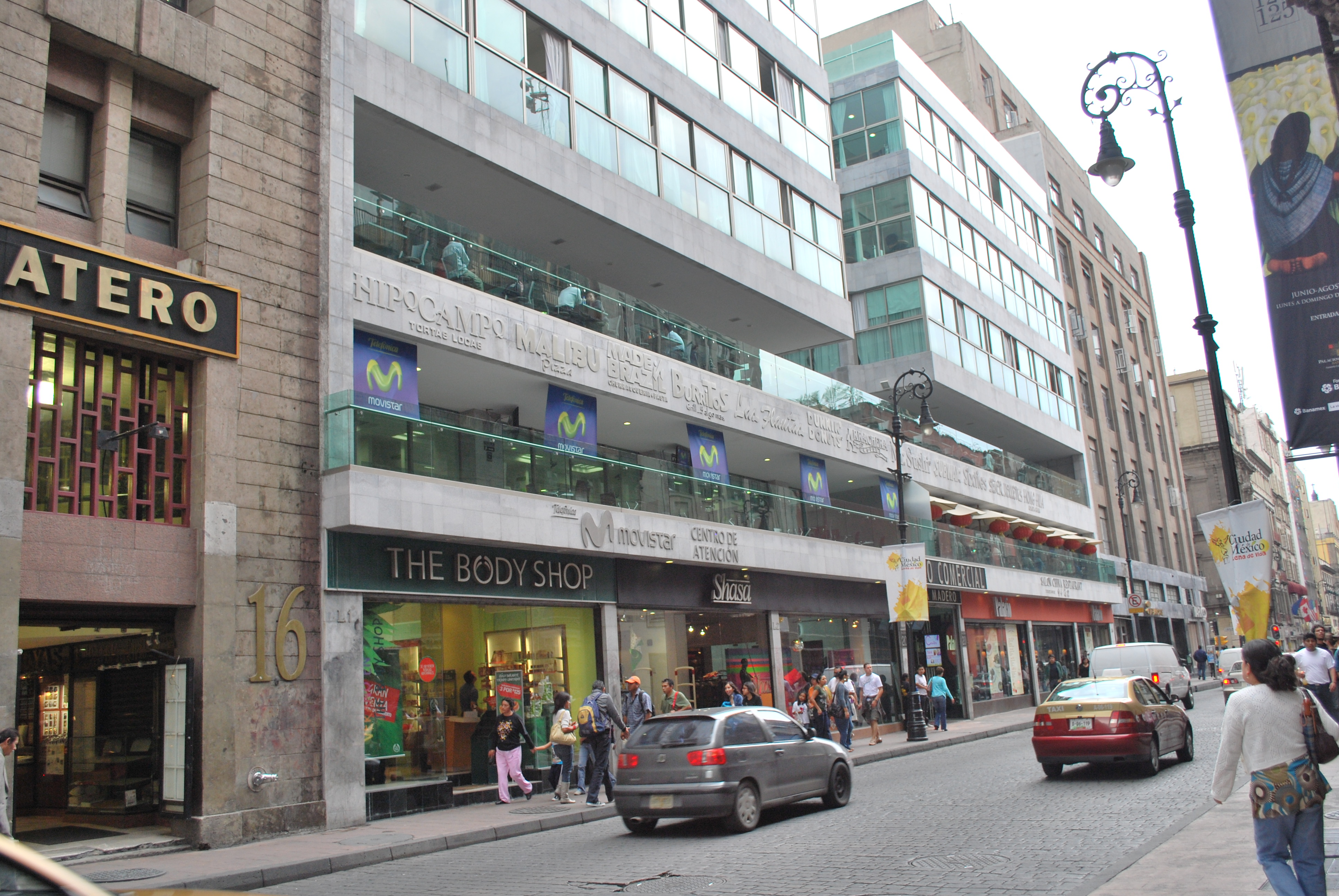 Facade of the Centro Commerical Madero located on Madero Street in the historic center of Mexico City